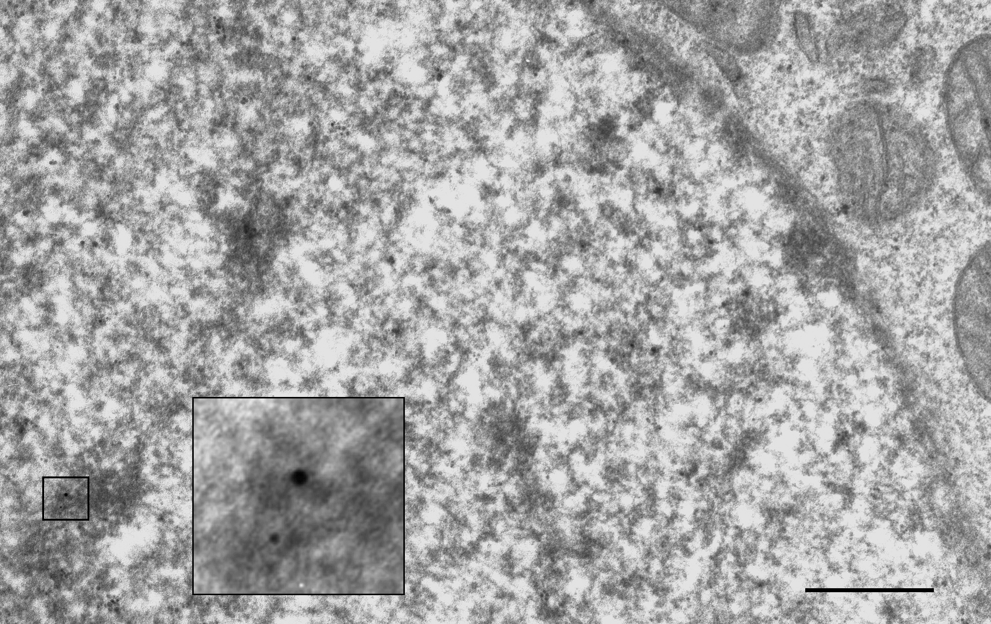 Transmission electron micrograph of a CHO cell, that has plasmid DNA transferred into its nucleus with PepFect14 cell-penetrating peptides. On the right side of the image there are mitochondria. pDNA (pGL3; 4,7 kDa) has been marked with nanogold, that has been enlarged with silver coating to make it visible under the microscope. The bar in the right indicates a dictance of 500 nm. Institute of Molecular and Cell Biology, University of Tartu.